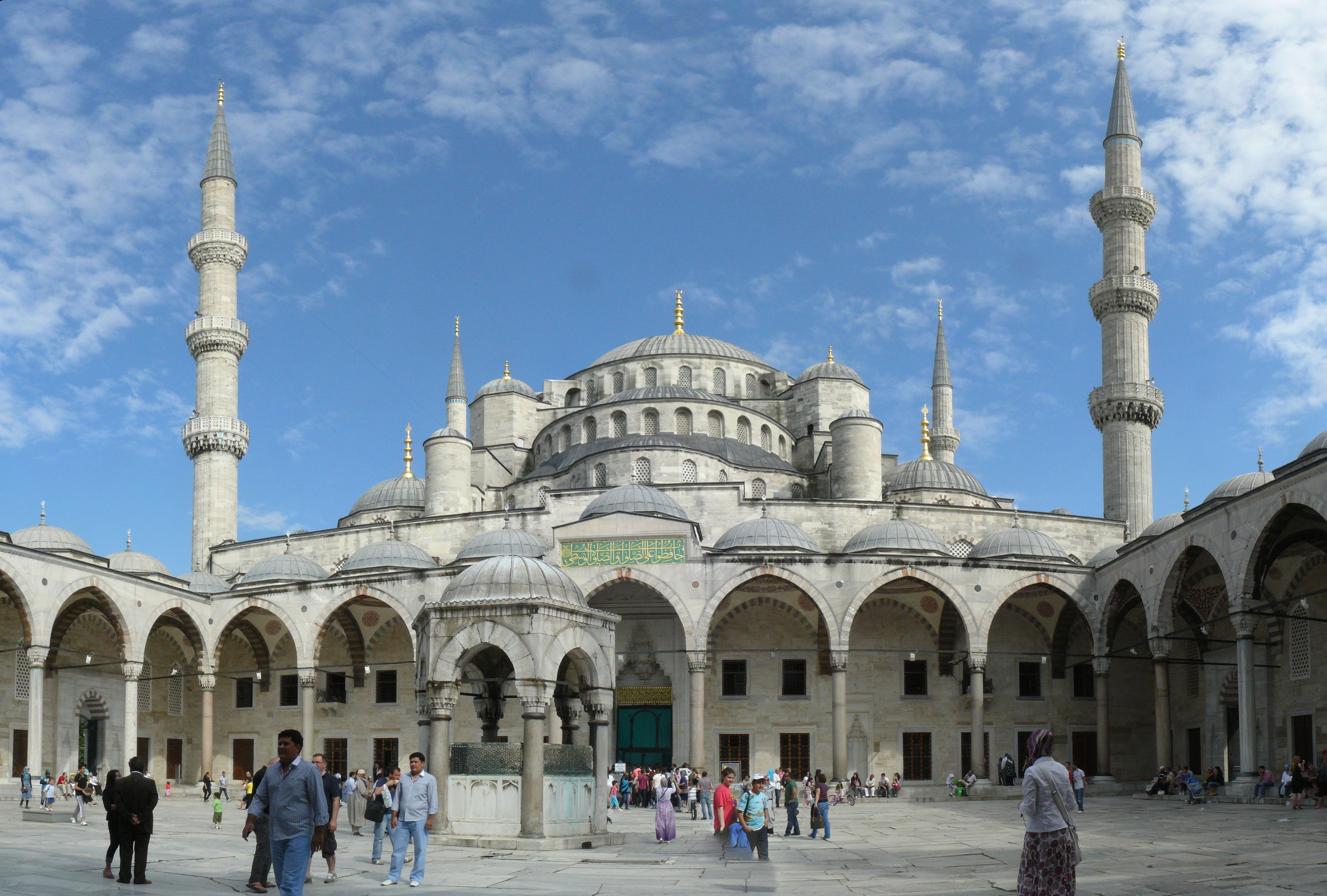 Courtyard of Sultan Ahmed Mosque, Istanbul.